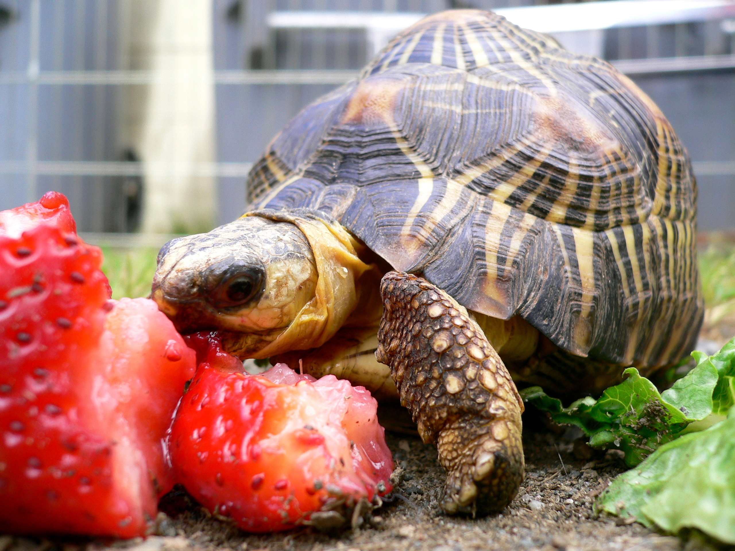 Turtle Lunch